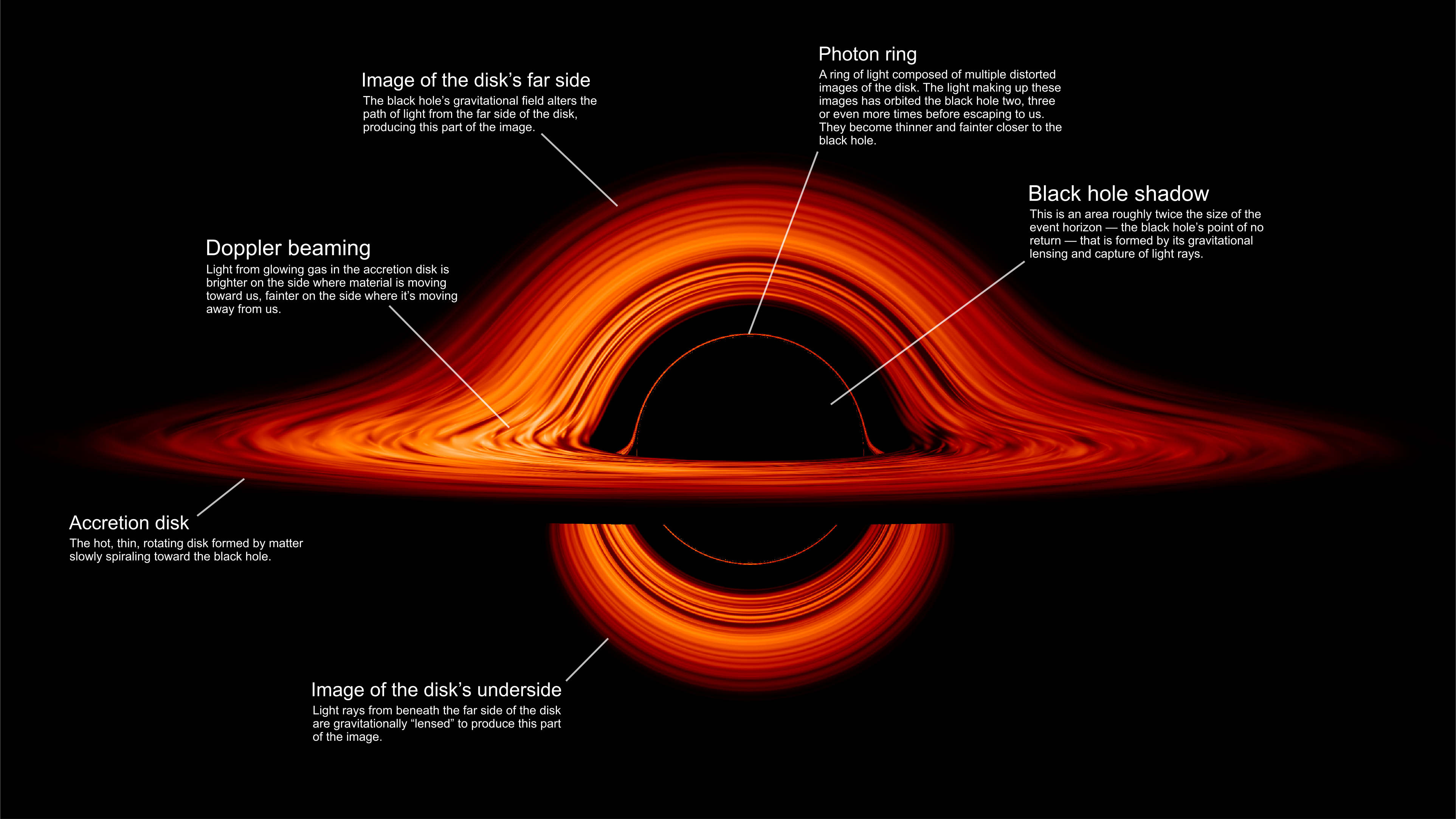 Seen nearly edgewise, the turbulent disk of gas churning around a black hole takes on a crazy double-humped appearance. The black hole’s extreme gravity alters the paths of light coming from different parts of the disk, producing the warped image.